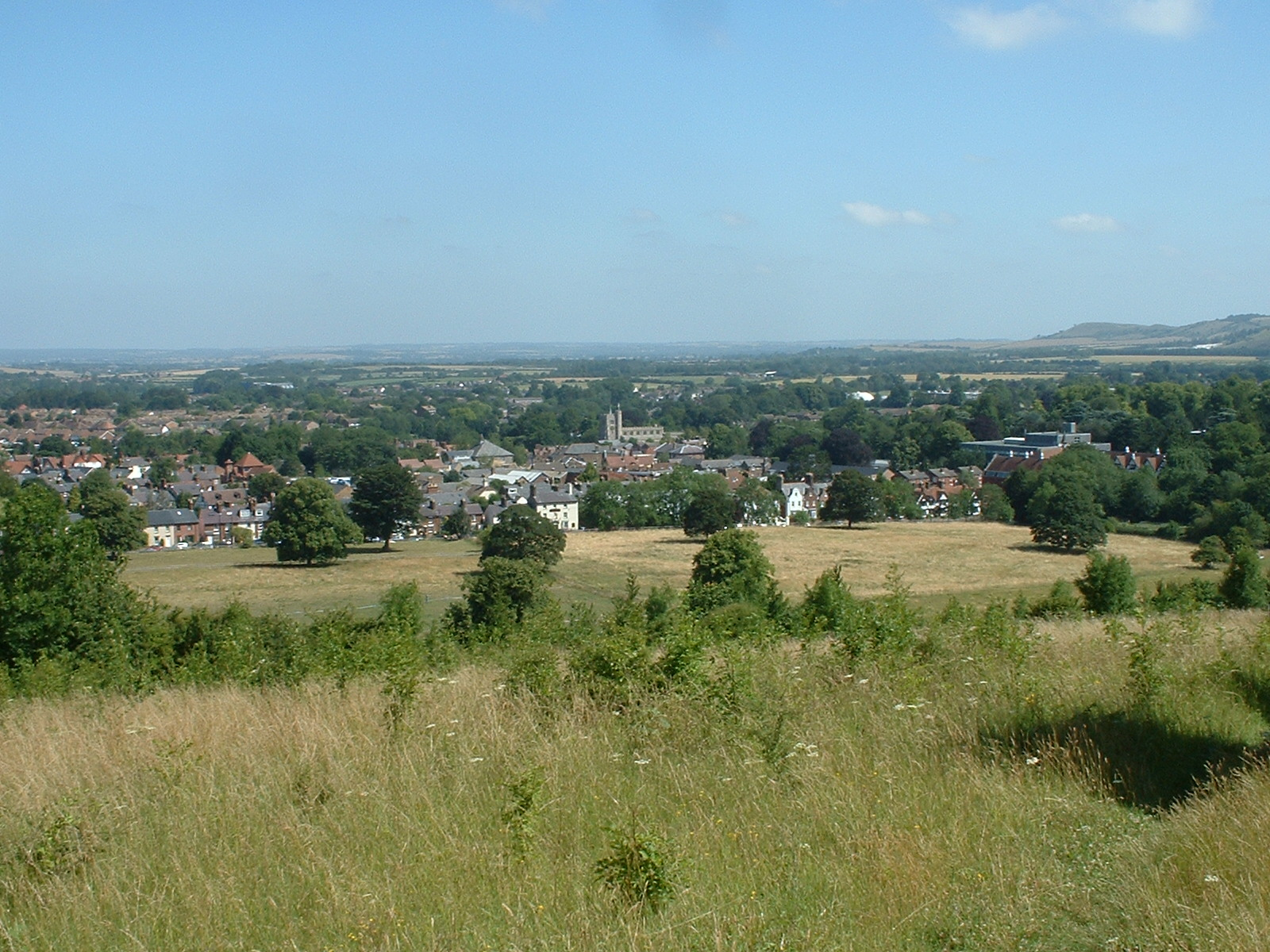 A view over Tring, Hertfordshire, UK looking North. The large building on the right is the Walter Rothschild Zoological Museum. Ivinghoe Beacon is in the distance on the right.